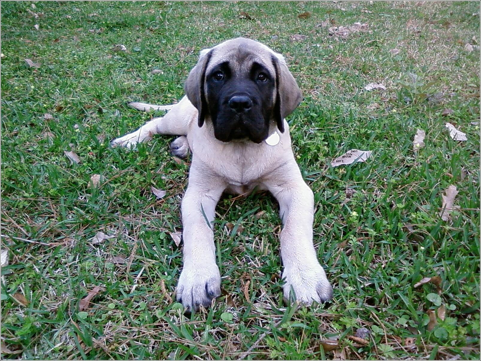 16 week English Mastiff, Brutus